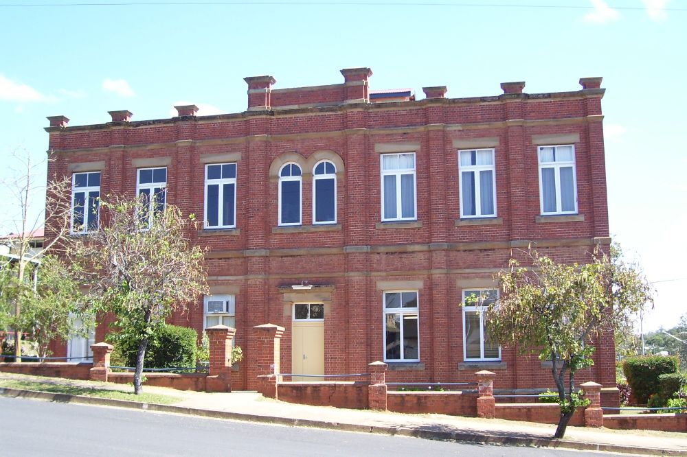 Former Technical College Building, from S (QLD Project Services, 2006)